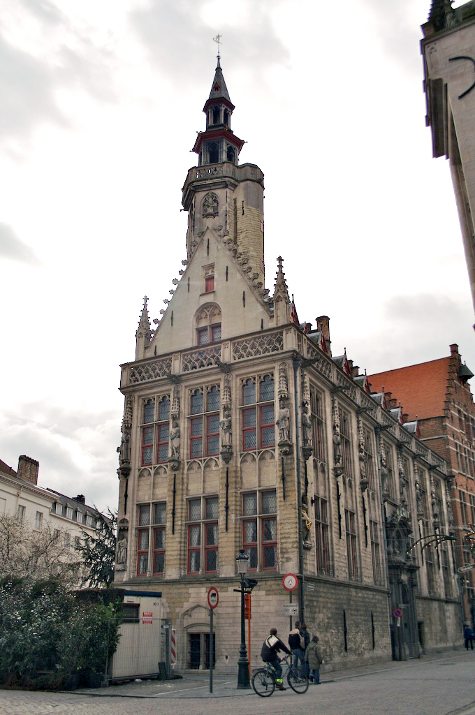 A tour of the historic Belgian city of Brugge, with the Fulbright Program